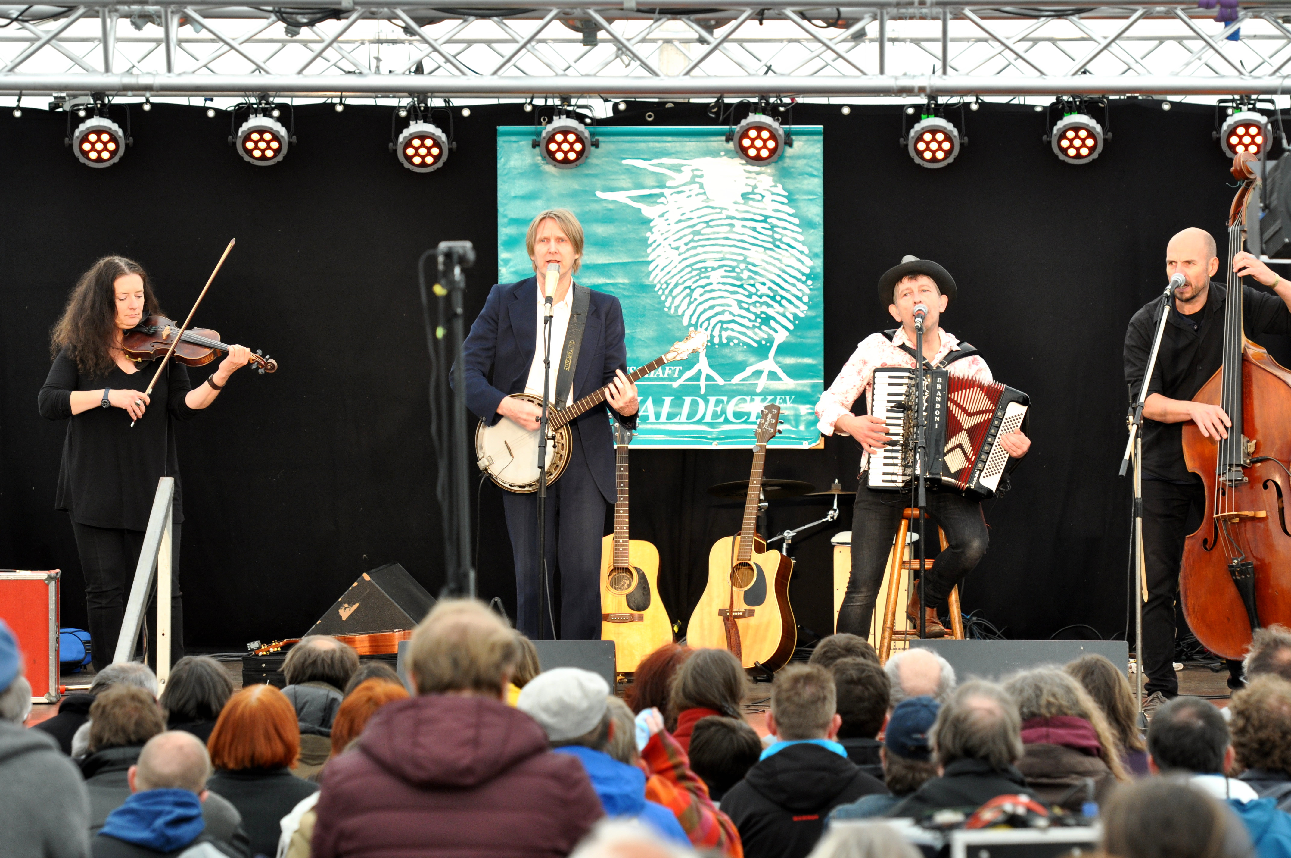 Lüül & Band (Lutz Graf-Ulbrich) at the 2016 song festival at Waldeck castle, Dorweiler, Rhineland- Palatinate, Germany Festivalsommer This photo was created with the support of donations to Wikimedia Deutschland in the context of the CPB project "Festival Summer".